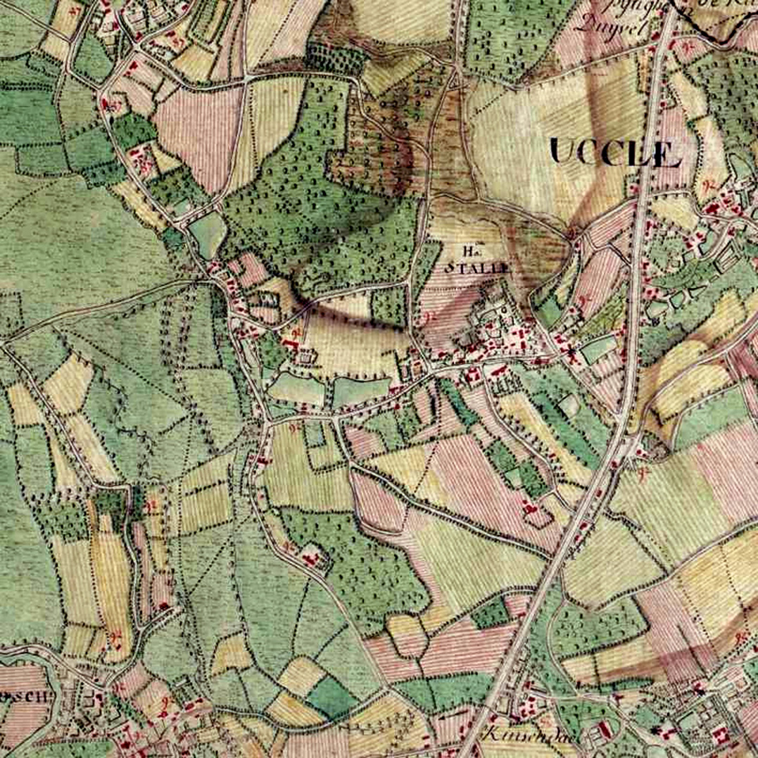 detail of a map from the atlas de ferraris